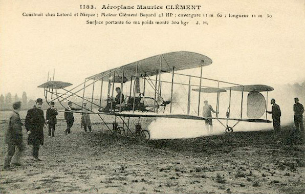 1908 Clement Biplane, piloted by Maurice Clement. It was constructed at Letord et Niepce and powered by a 43 hp Clément-Bayard motor. Weight 500kg. Wingspan 11.6 metres. Wing area 60 square metres. Length 11.5m